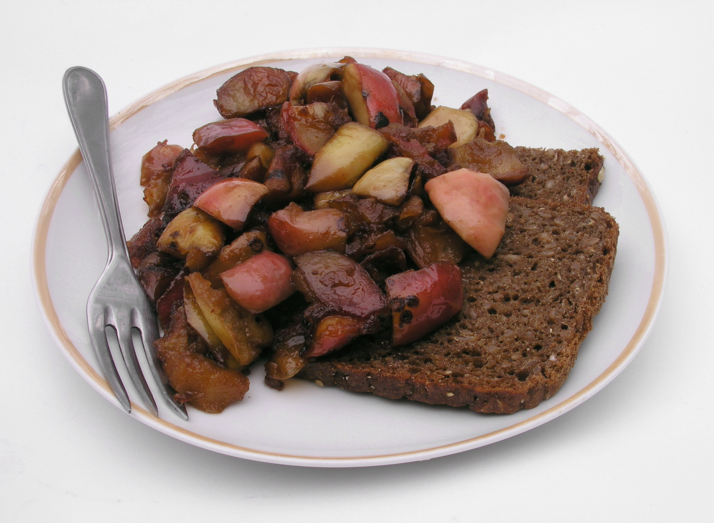 Æbleflæsk (lit. apple bacon in Danish) is a dish of apples, bacon and sugar from Denmark